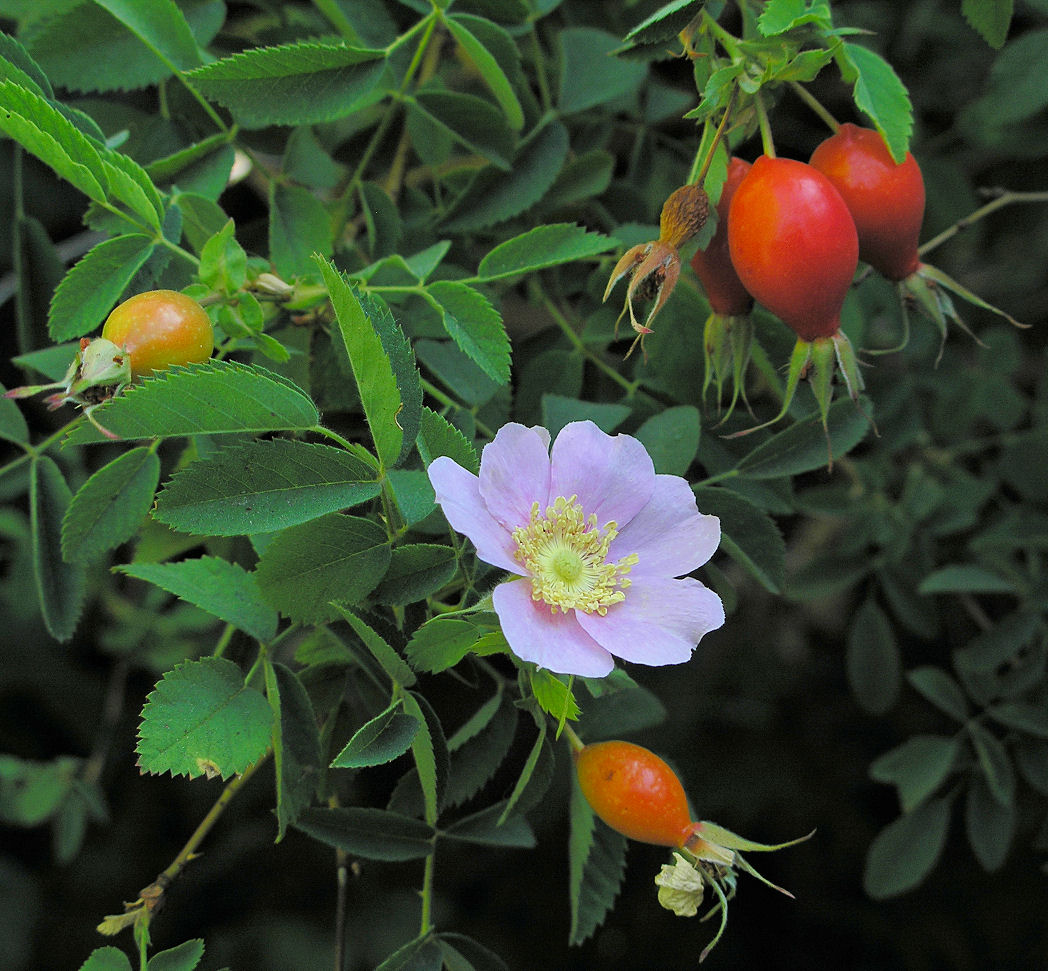 Rosa californica California wild rose, San Fernando Valley, July